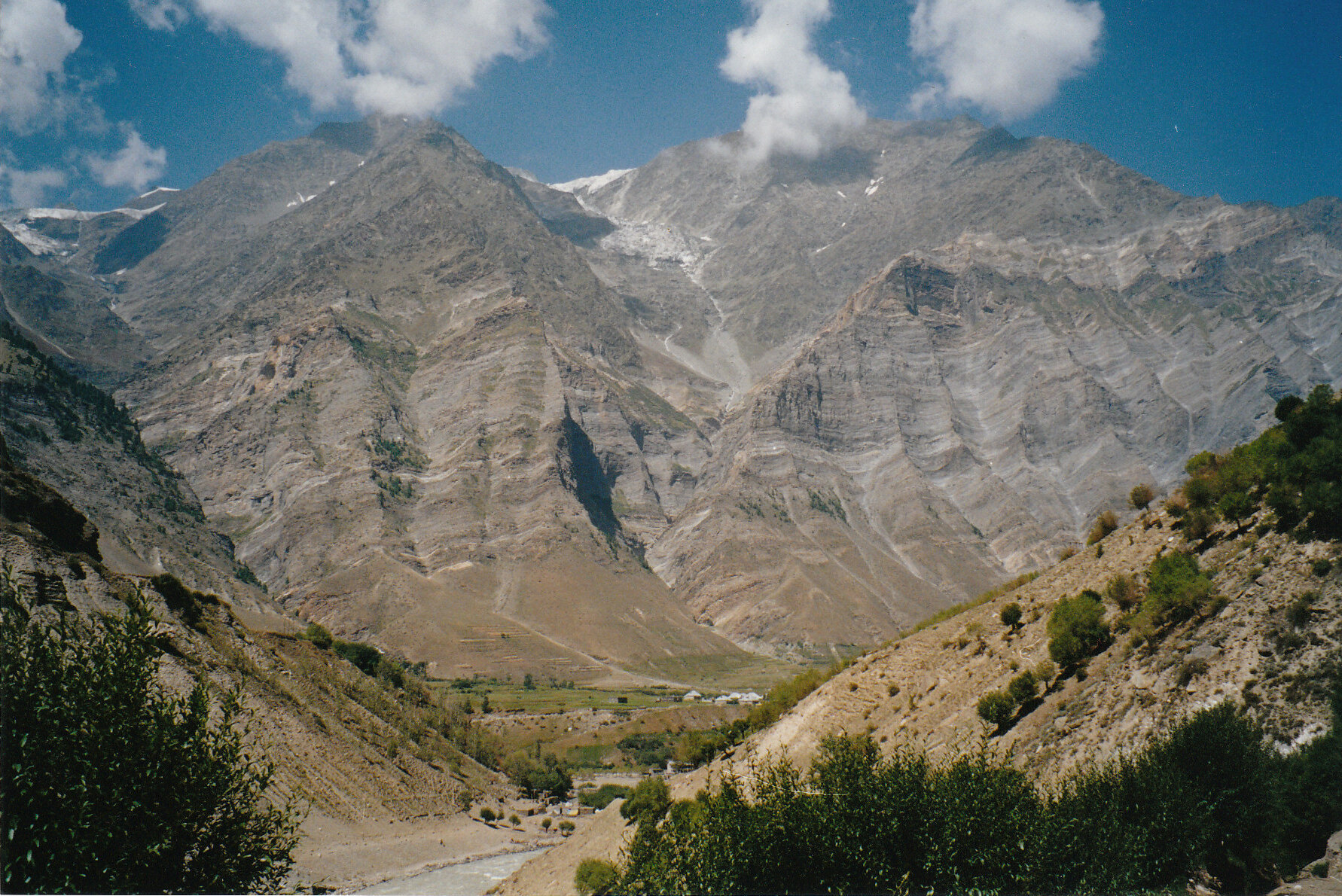 Chenab valley, near Rohtang Pass. Himachal Pradesh